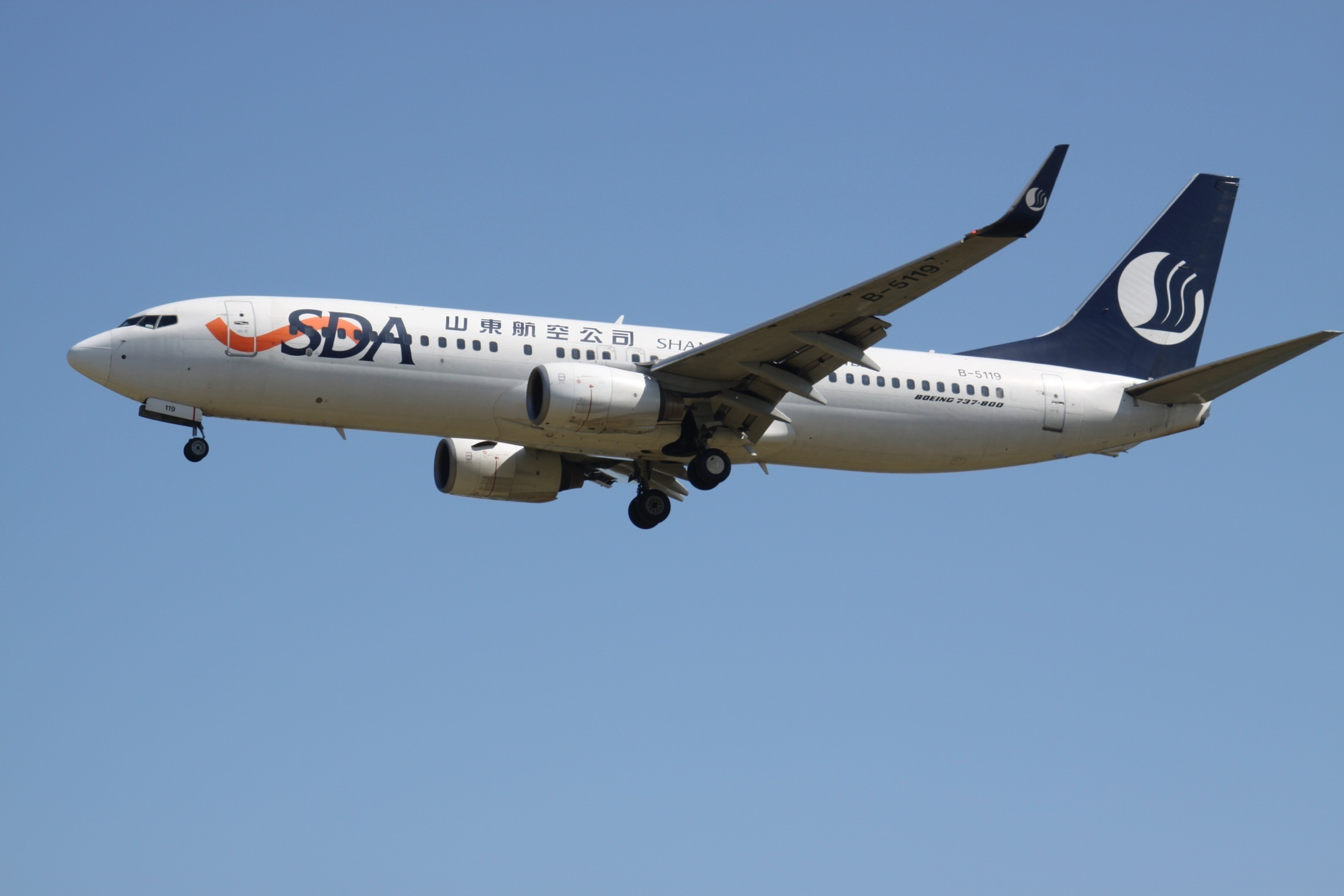 At Beijing Capital